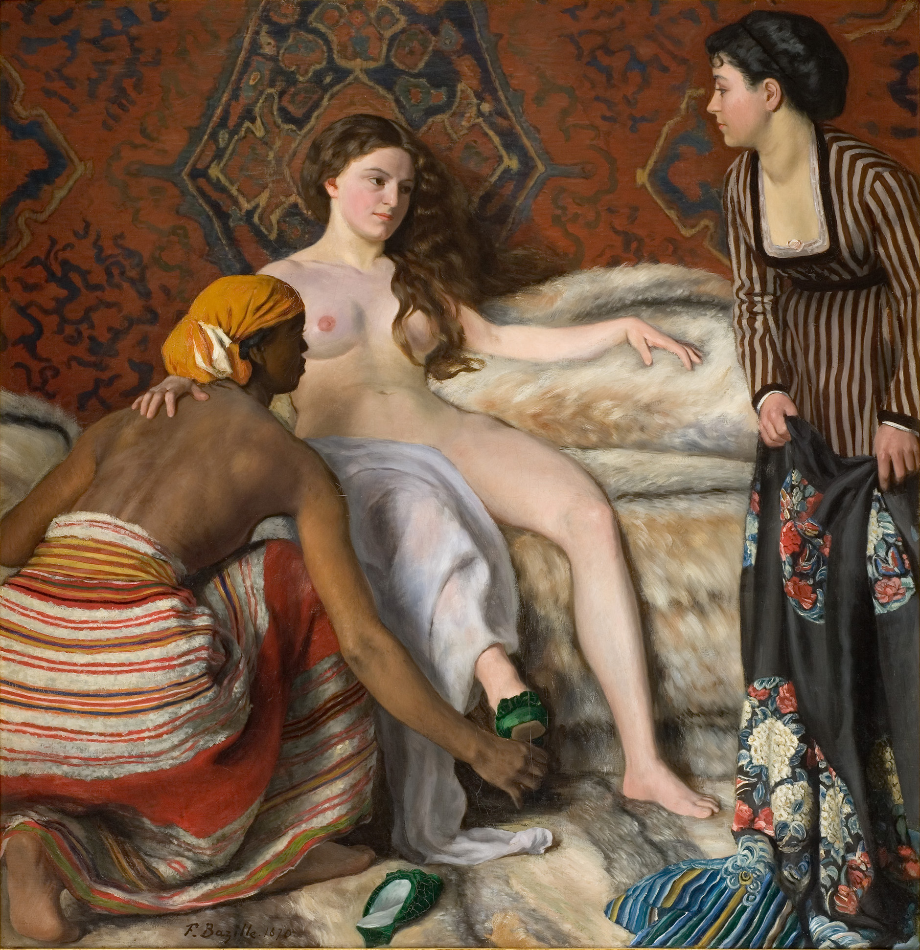 At 29, Bazille wanted to demonstrate his skill by using this painting. However, the jury rejected his picture.